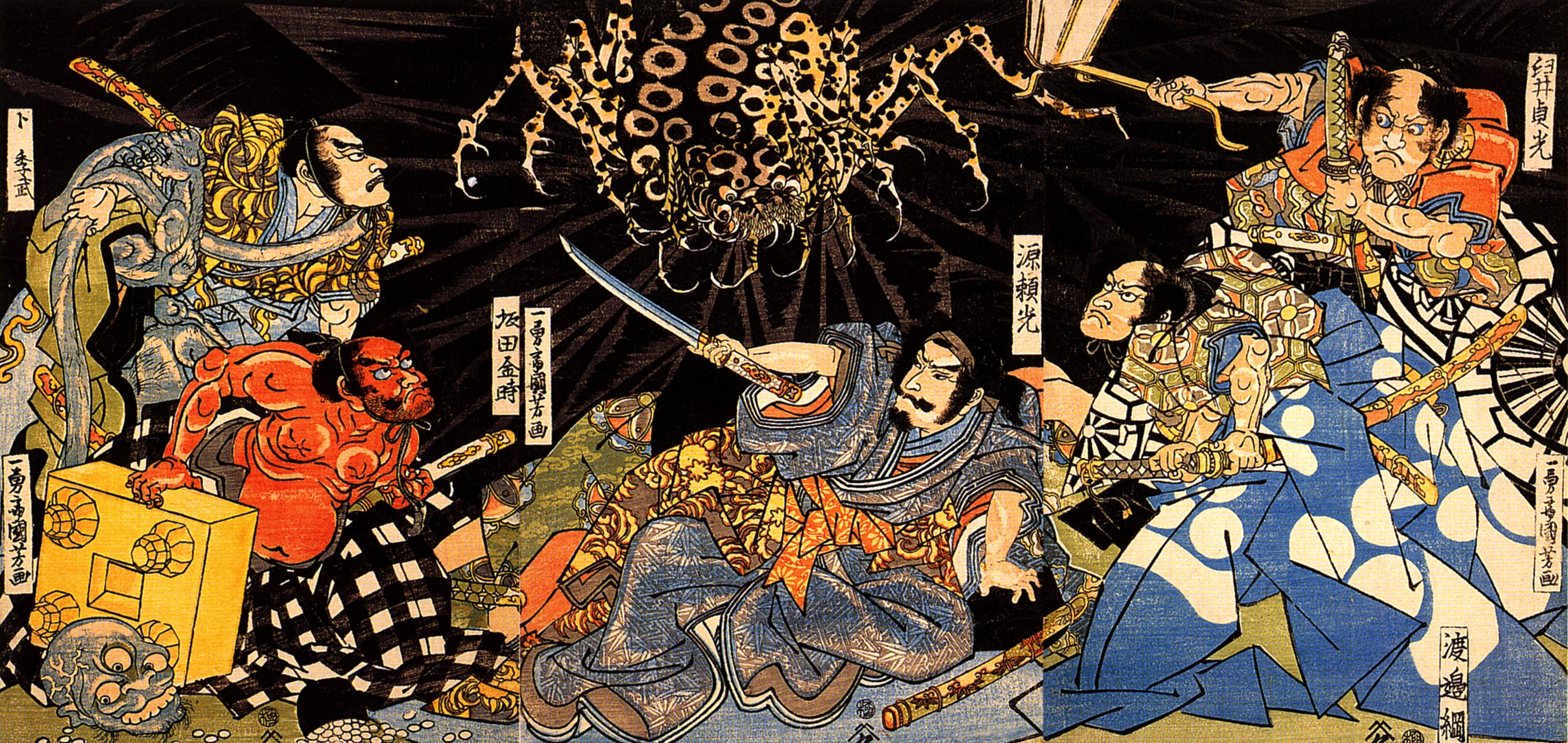 This print illustrates how the sick Raiko is tormented by the earth spider. Although weak from fever, he slashes the spider with his sword. The story has been taken for a play.